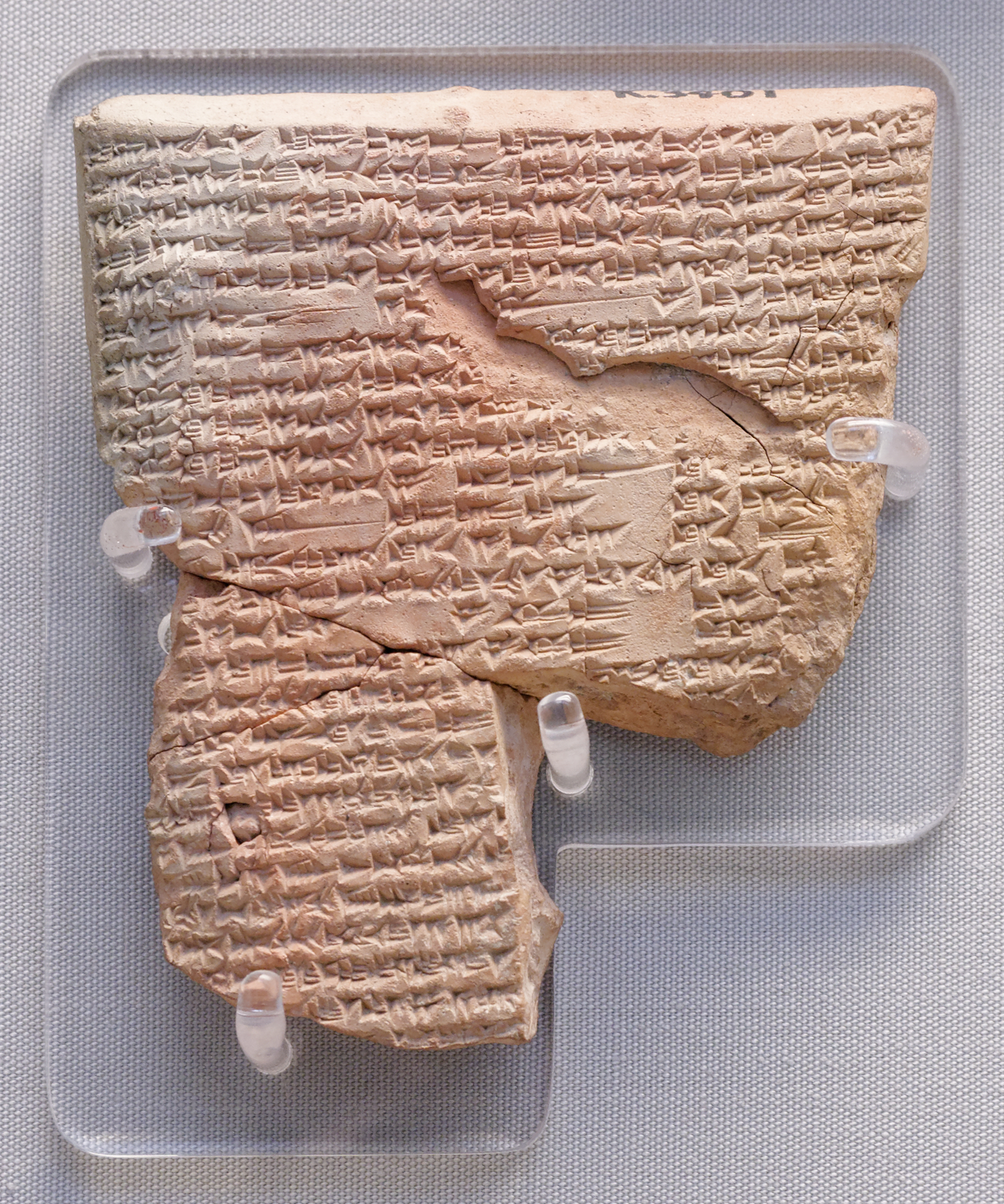 Cuneiform tablet with the legend of Sargon I's birth, from the library of King Ashurbanipal (reigned 669-631 BC).